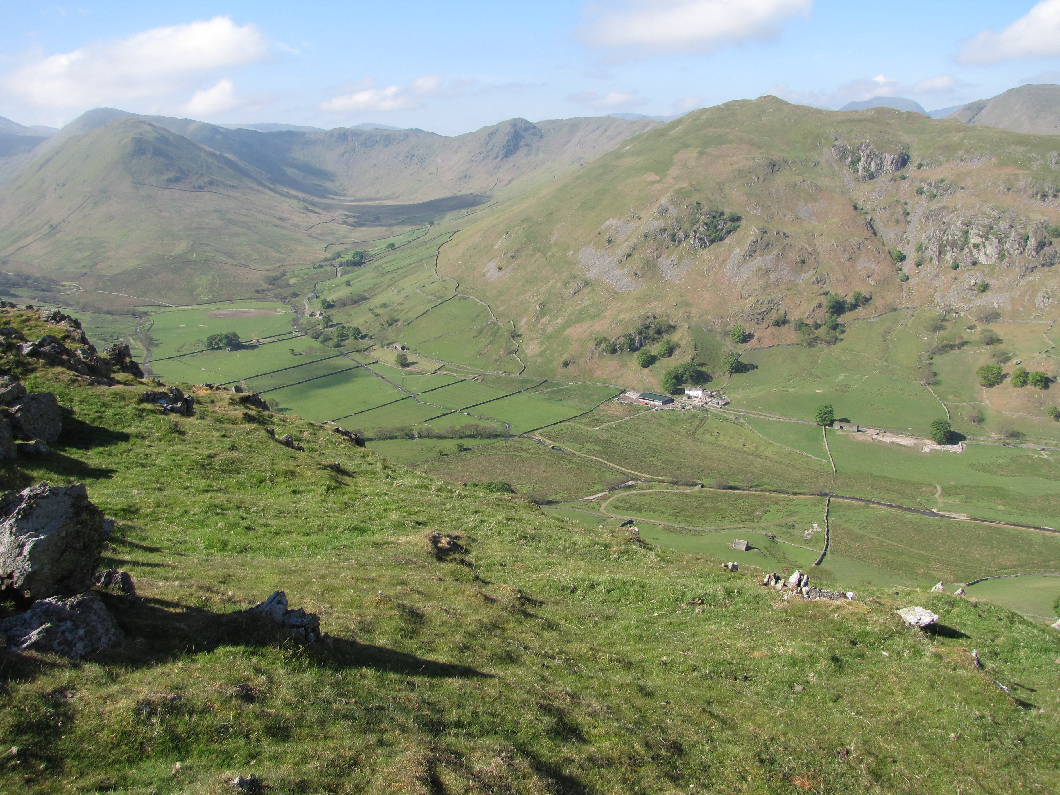 Martindale in Cumbria, seen from the fell of Steel Knotts.